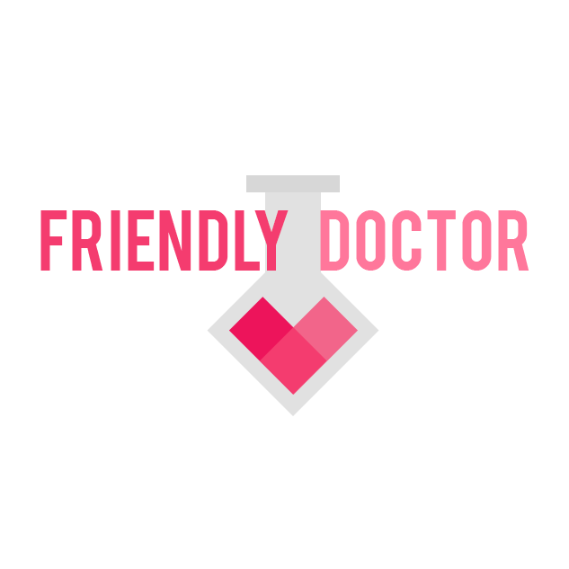 logo